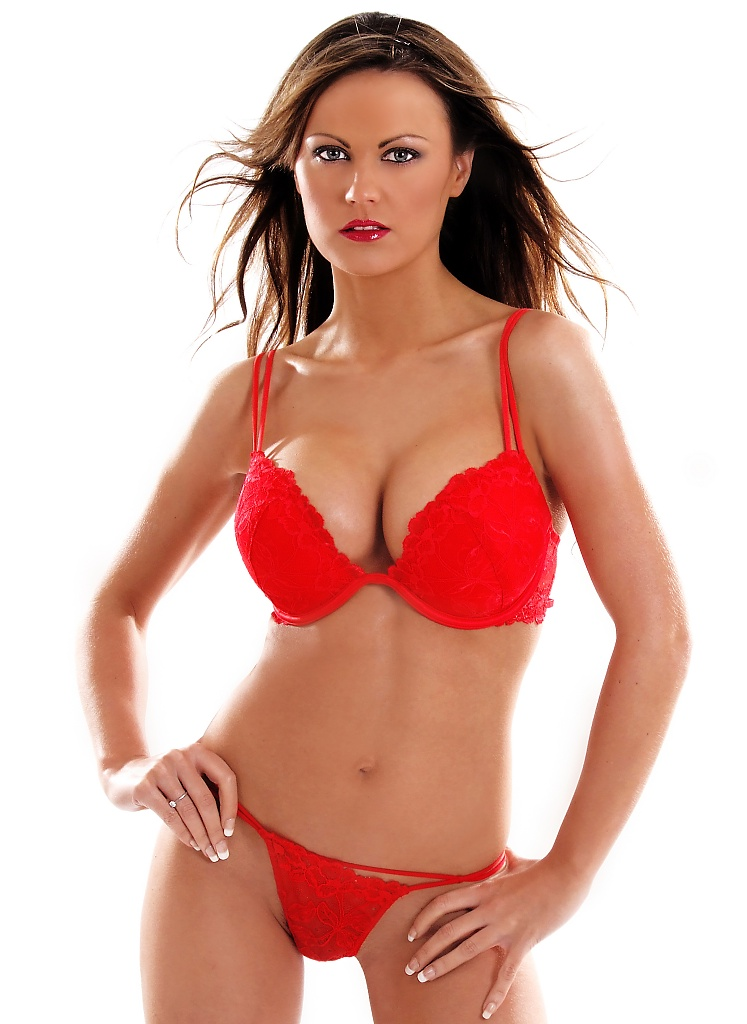 English model Jasmine Sinclair.